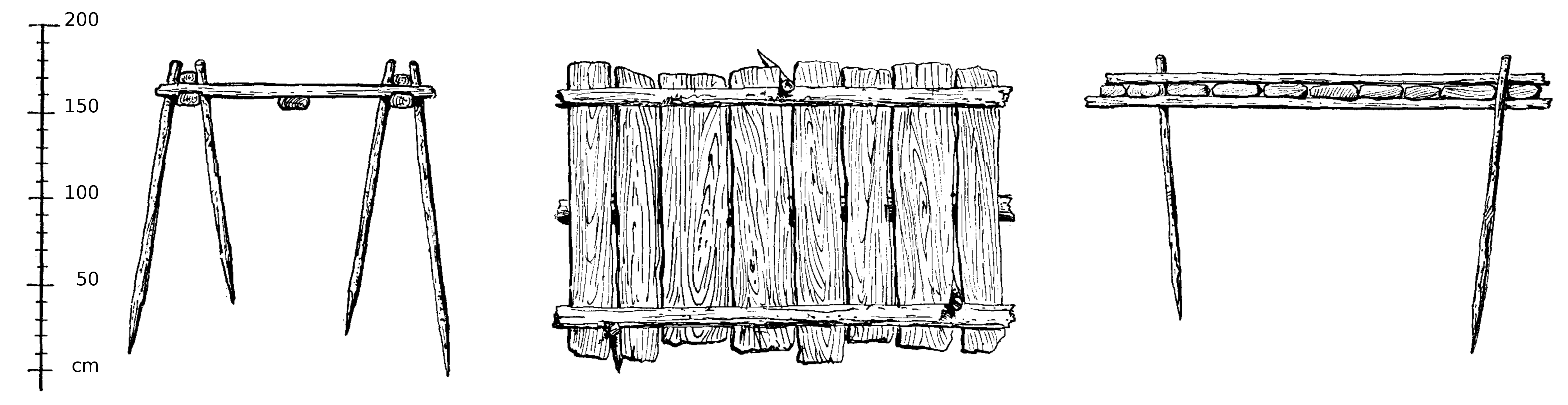 Drawing of the southern, elder Bog Trackway No II of Wittmoor at Hamburg Duvenstedt, Hamburg-Lemsahl-Mellingstedt and Norderstedt Glashütte, Germany. The trackway was discovered in 1898 and dates back to 7th century AD. The drawing shows a part of the beinning of the trackway in corss section (left), top view (center) and longitudinal cut (right).